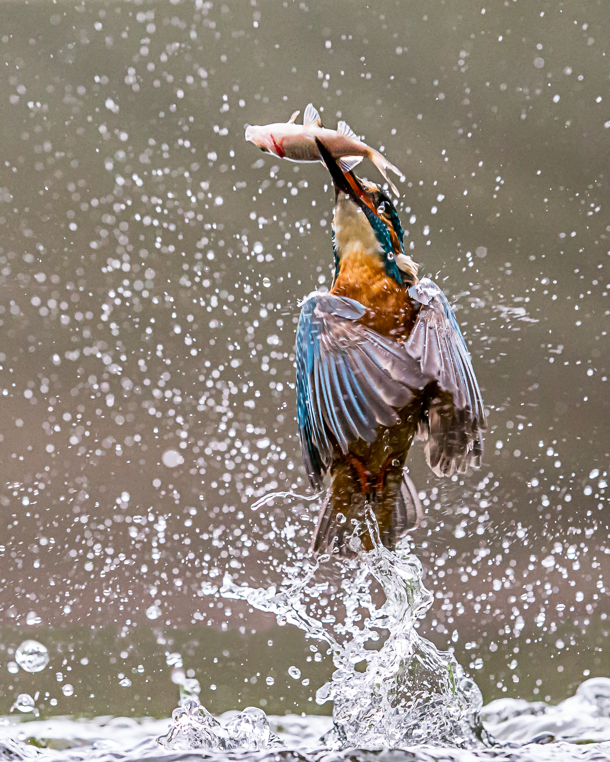 A kingfisher leaves the water with its prize!